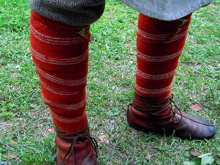 early medieval leg wrappers "Wickelbaender" (reconstruction by Hellen Schmidt and Mike Werner), closed with hooks